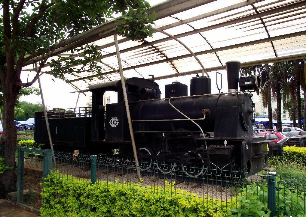 Steam locomotive of the Railroad of Goias. Goiania (GO).